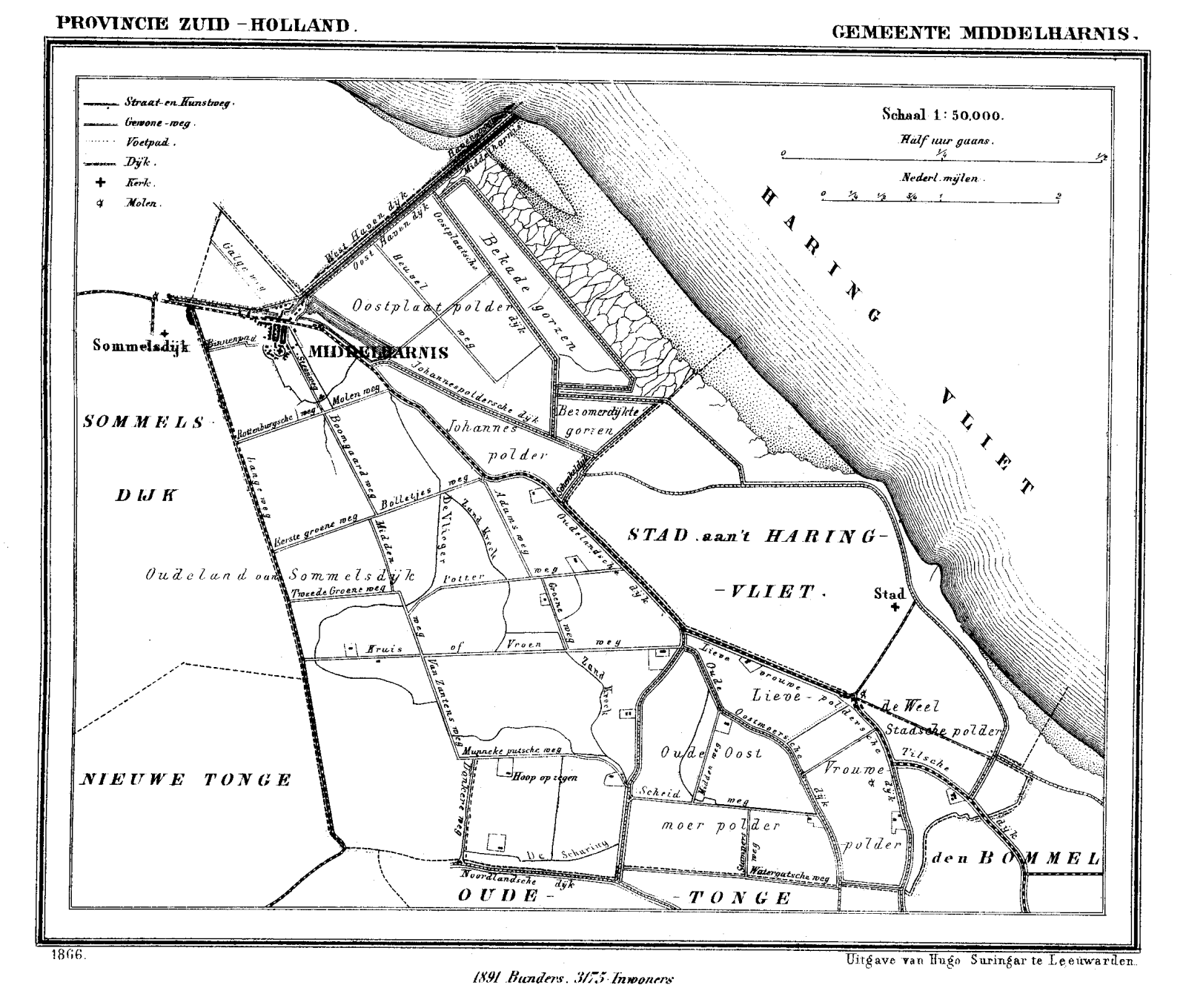 Historic map of Middelharnis, South Holland, the Netherlands